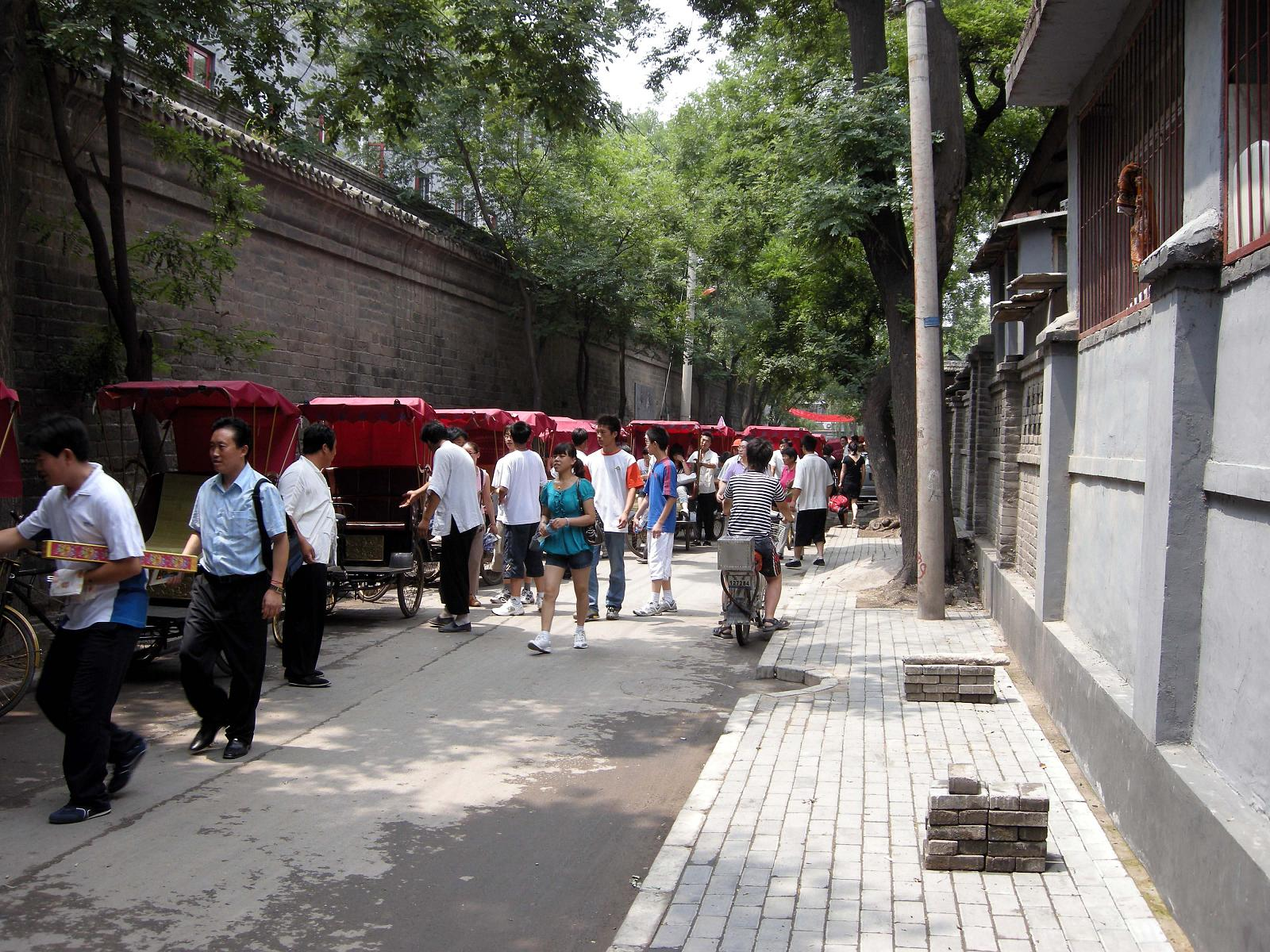 Hutong at the Prince Gong Mansion